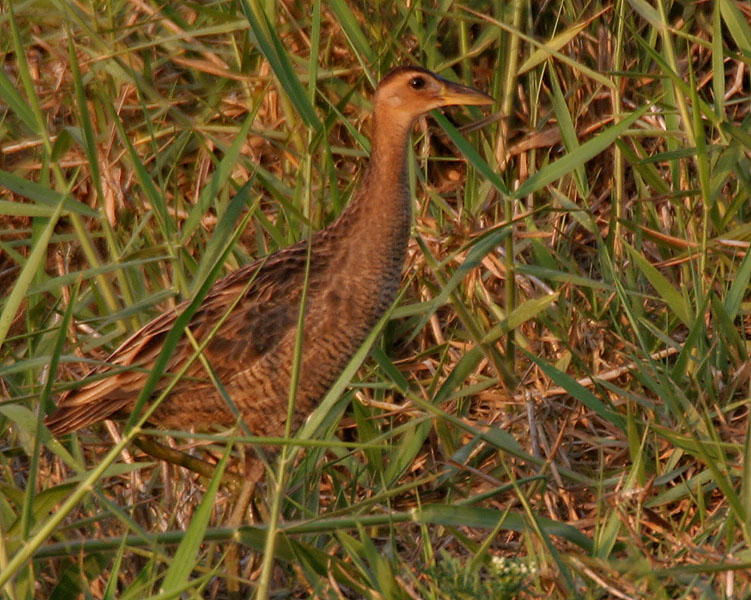 Watercock Gallicrex cinerea at Uppalapadu, Andhra Pradesh, India.